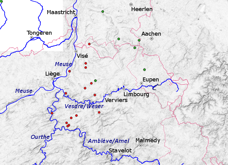 The red markers are attestations of places in the Luihgau pagus from 779 until 1005. The green markers are from 1041 to 1059. The data used was from Open Street Map and MapSurfer ASTER GDEM-SRTM Hillshade. The software used was QGIS and Gimp. The information can be found in the standard sources including Ulrich Nonn's Pagus und Comitatus, and Ernst's Histoire du Limbourg.